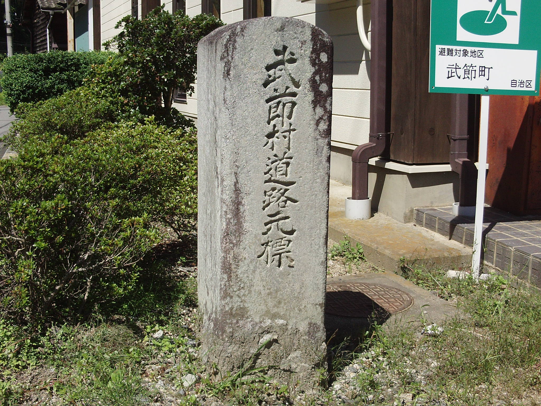 Kilometre zero of Busetsu village. (Busetsu village, Kitashitara-gun, Aichi.)